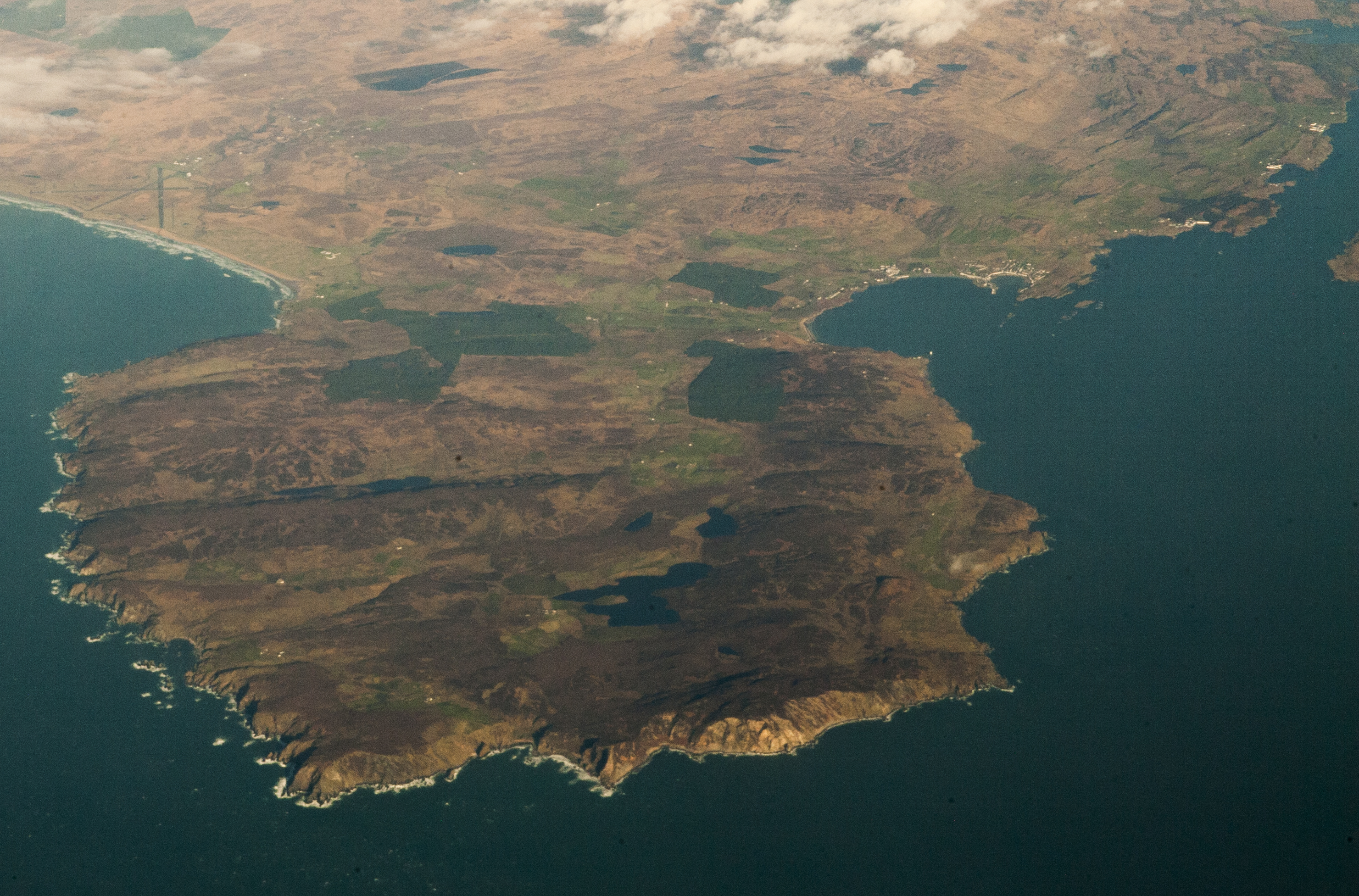 The Mull of Oa, on the south end of the island of Islay, Argyll, Scotland. The town on the right is Port Ellen. The high point above the cliffs is Bheinn Mhòr, at 201 meters. Islay Airport is at the top left.